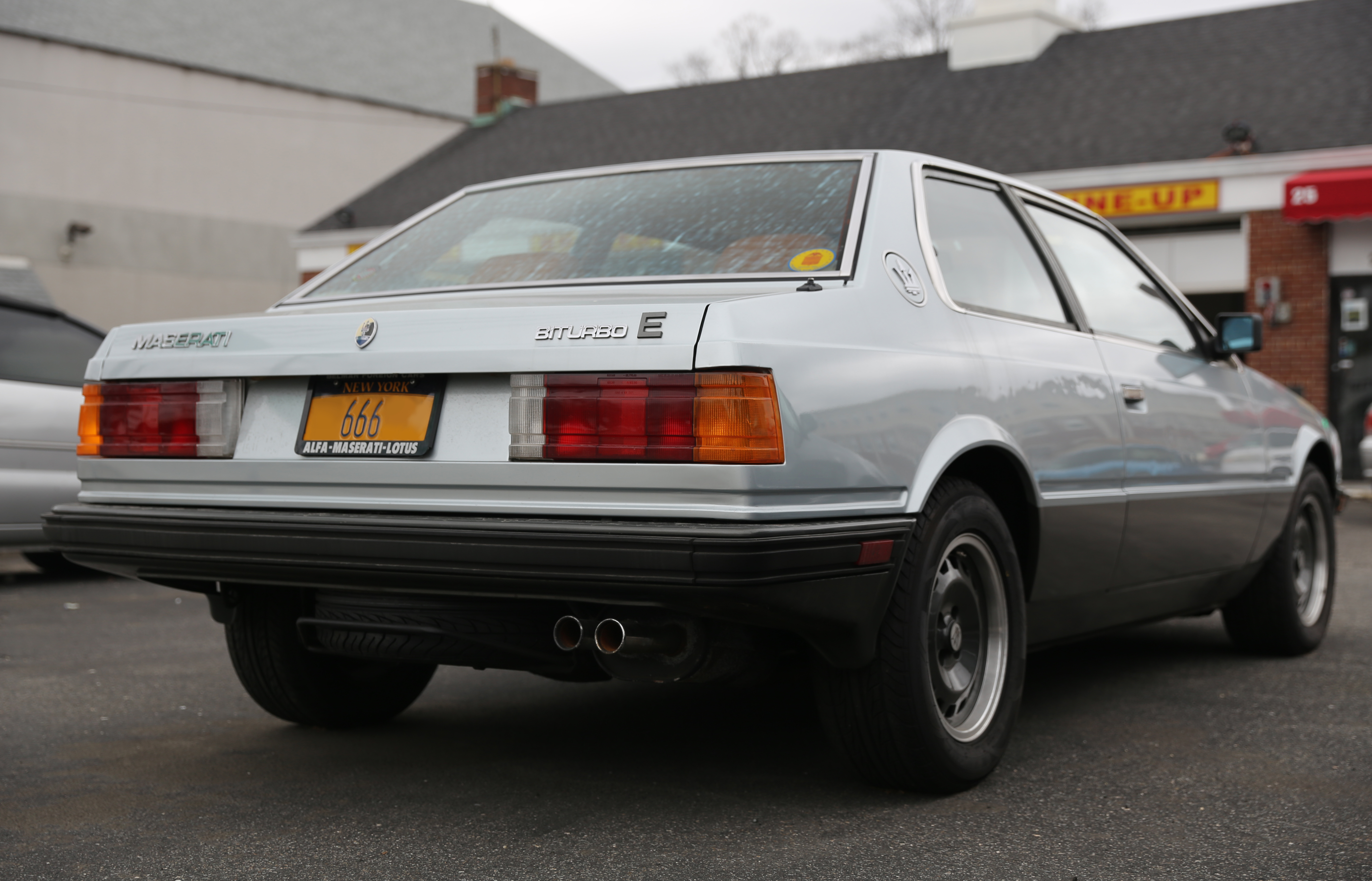 I love this car from the rear. One forgets how boxy it is, and how compact. At a shop/gas station - which makes sense, as none but a mechanic could possibly afford to keep an intrinsically worthless thirty-year old Maserati alive. A 1985 Maserati Biturbo E, tipo AM 331B25. 2.5 litre twin-turbo V6, built in Modena. 1190 Maseratis were sold in the US in 1985. The "E" was a better equipped, sportier, version of the 2.5 litre Biturbo as sold in most export markets.